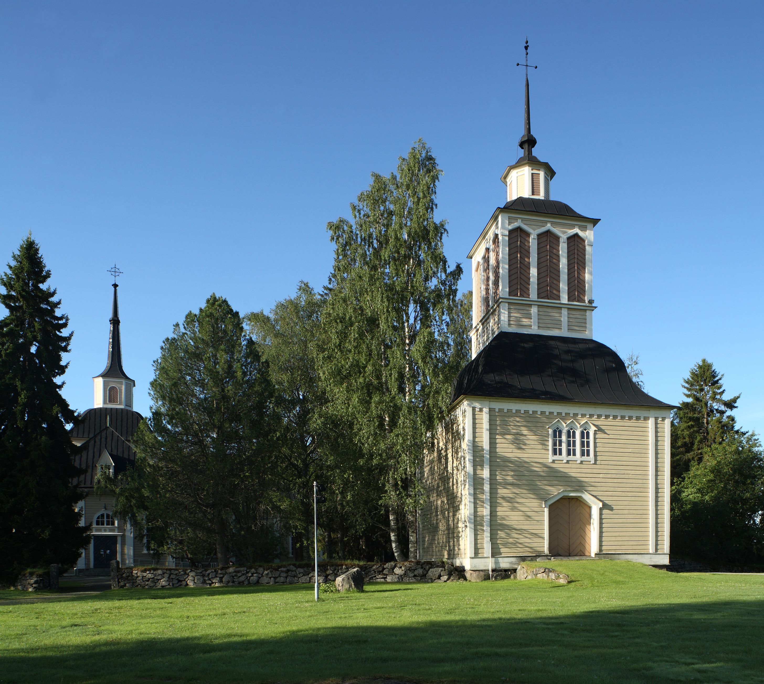 The bell tower of Iisalmi old church, built approximately 1750.